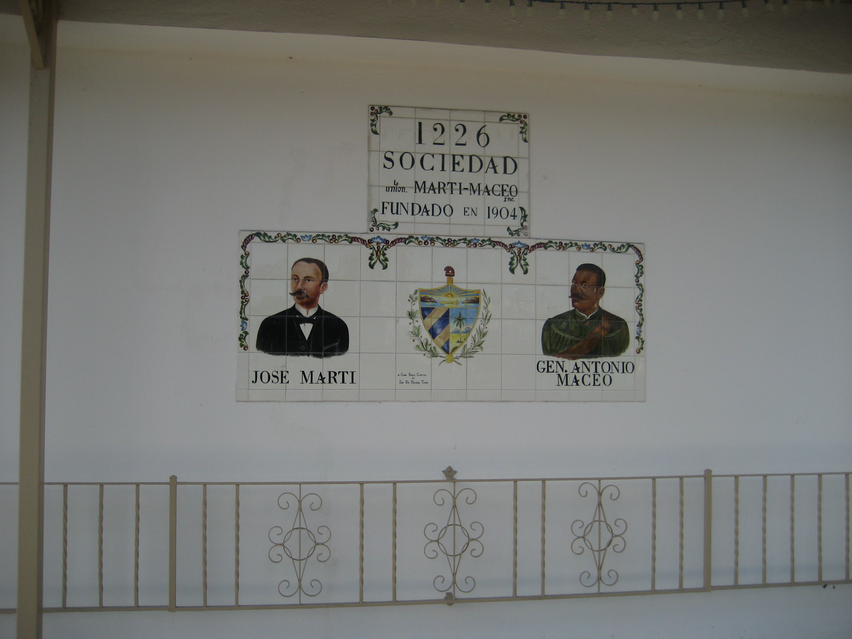 Front of Marti-Maceo club building showing tilework, 7th Street, Ybor City section of Tampa, Florida.